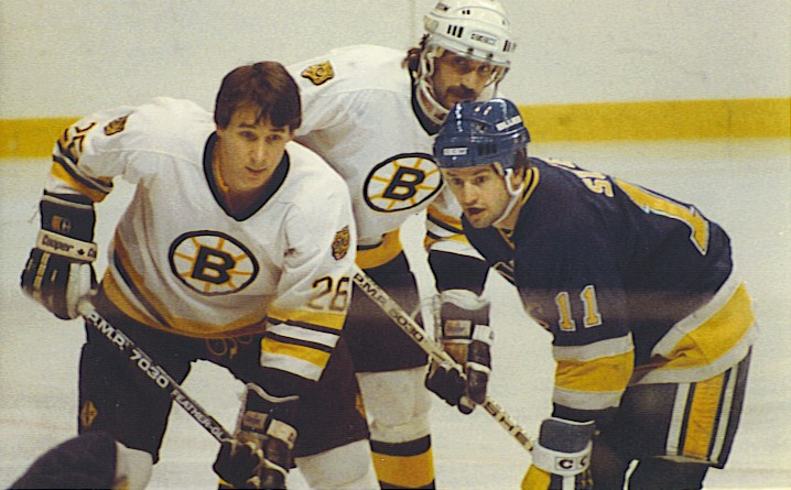 Mike Milbury (pictured left) awaiting a face off with Brian Sutter of the St. Louis Blues (pictured right) and Bruins teammate Charlie Simmer (pictured center) at the Boston Garden on March 21, 1985. (Final Score: Bruins 1-Blues 1/OT)